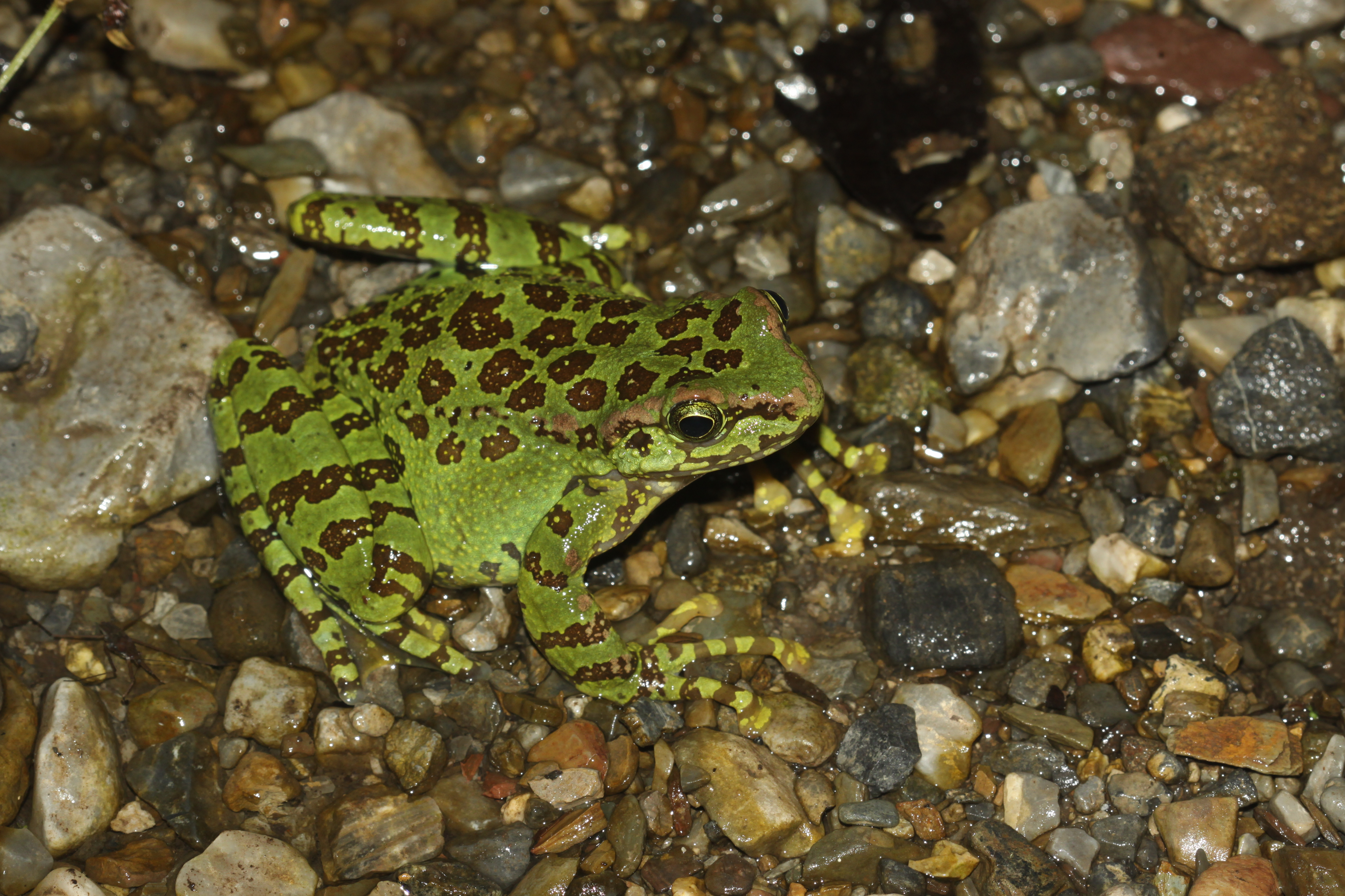 Amolops formosus is a beautiful frog inhabiting fast flowing parts of North Indian streams